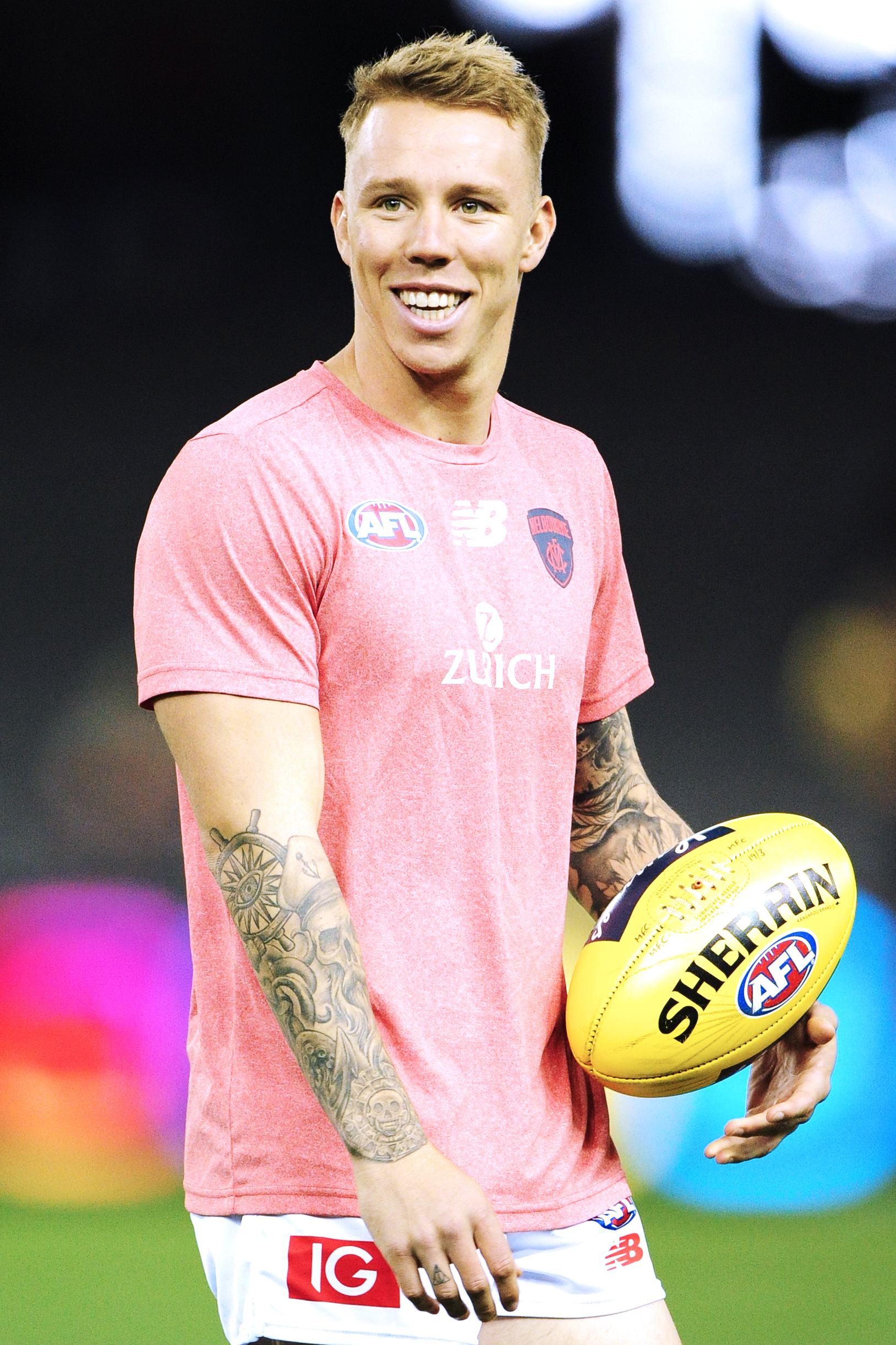 James Harmes of Melbourne during the 2018 AFL round 6 match between Essendon and Melbourne at Etihad Stadium on Sunday, 29 April 2018 in Melbourne, Victoria.